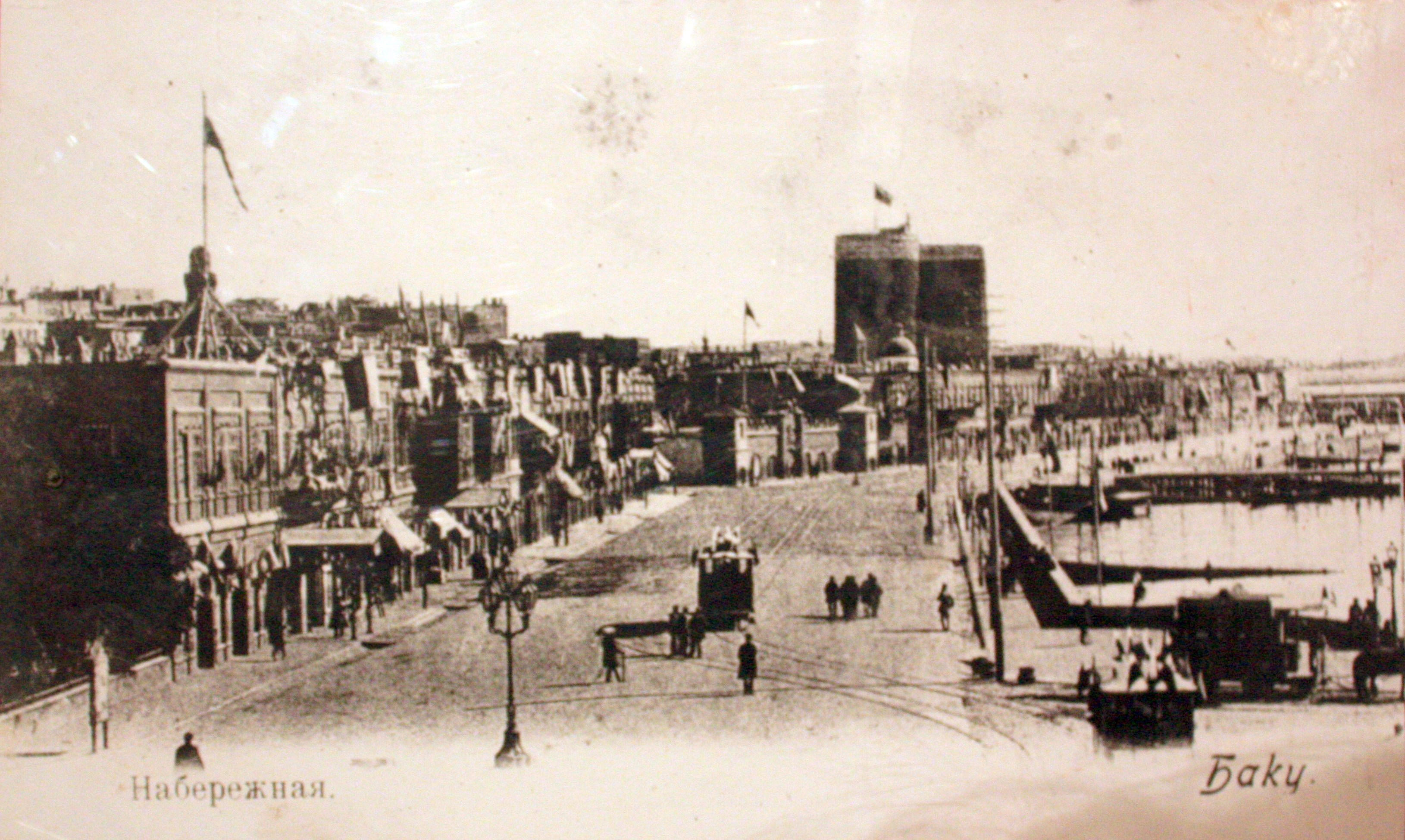 Seashore of the town of Baku in 1870. We can see the former tramway and the Maiden Tower.